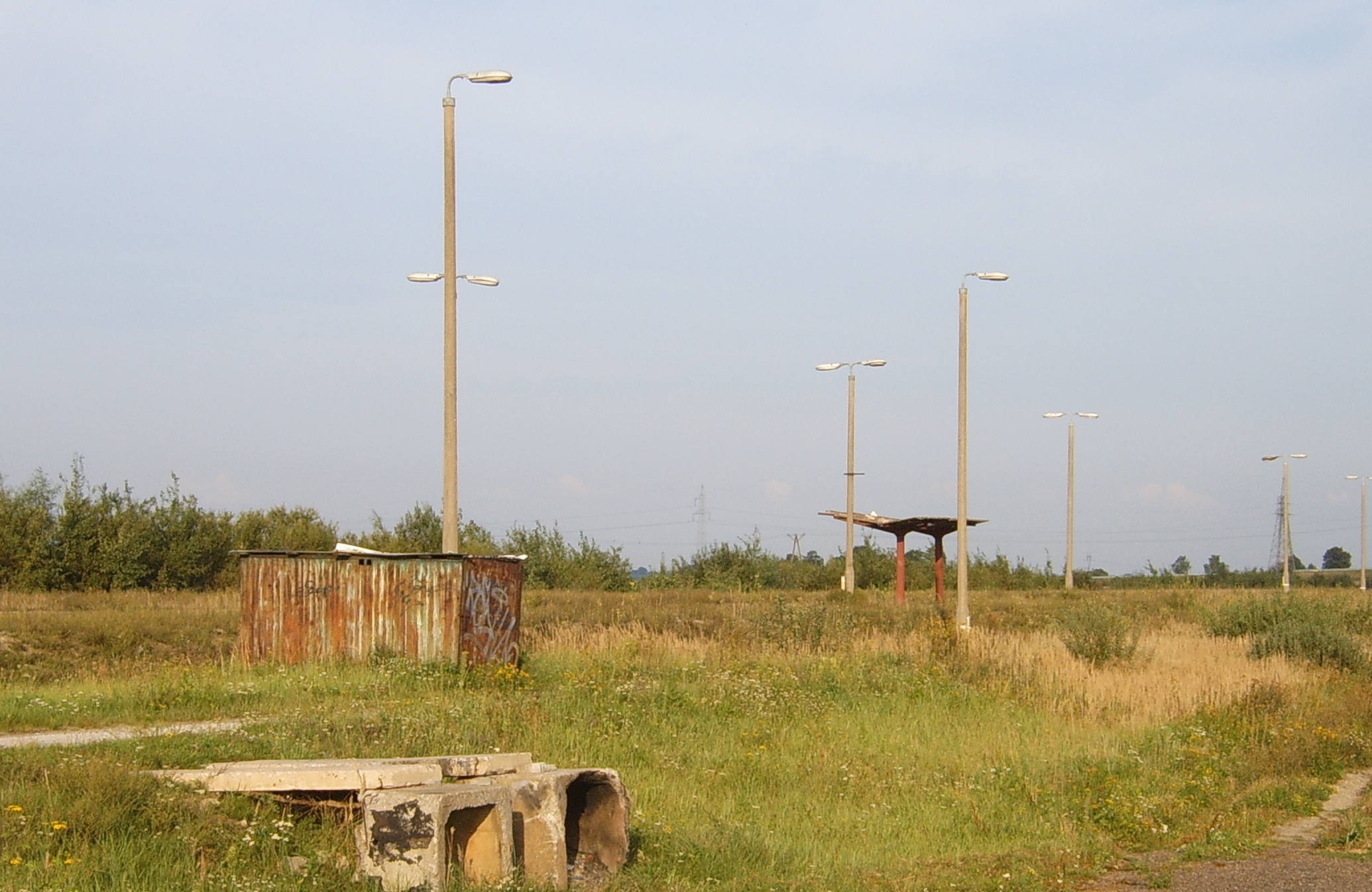 Closed LHS railway station "Zamość Północny"